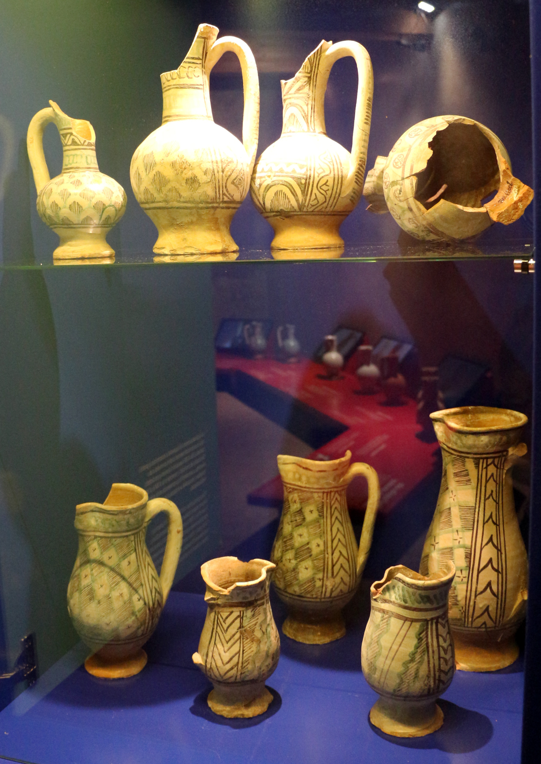 Archaic maiolica in the Castello di Piombino